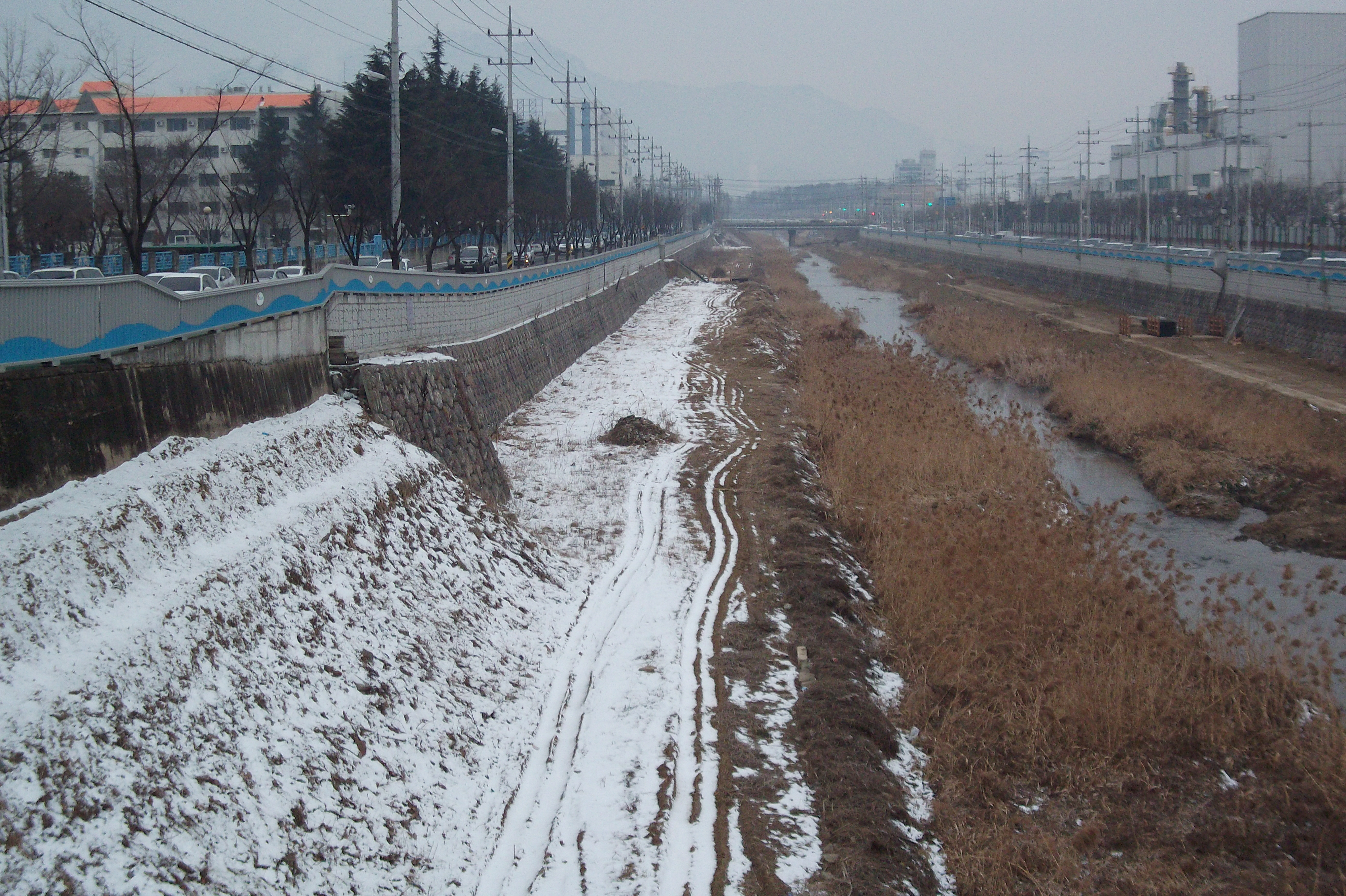 a small river through Gumi-si